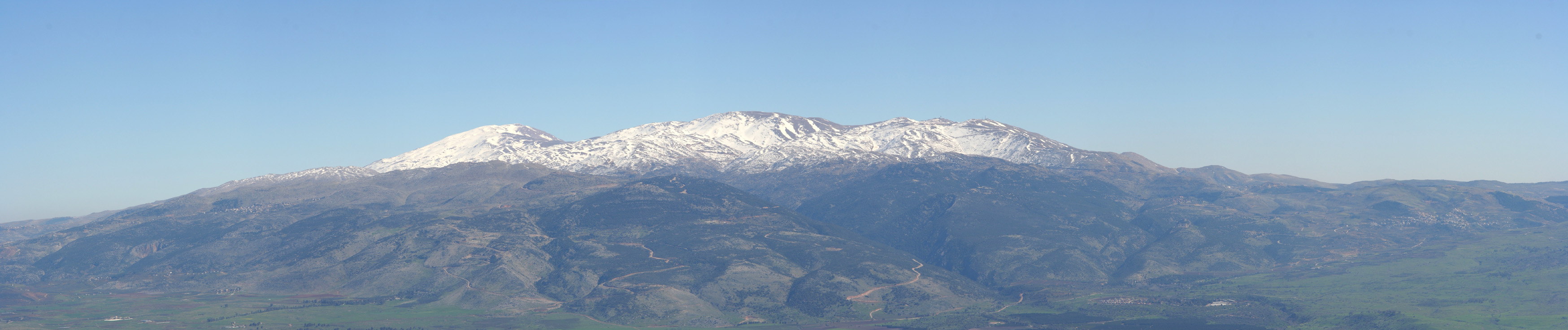 Panoramic photo of Mt. Hermon from Manara Feb. 2006